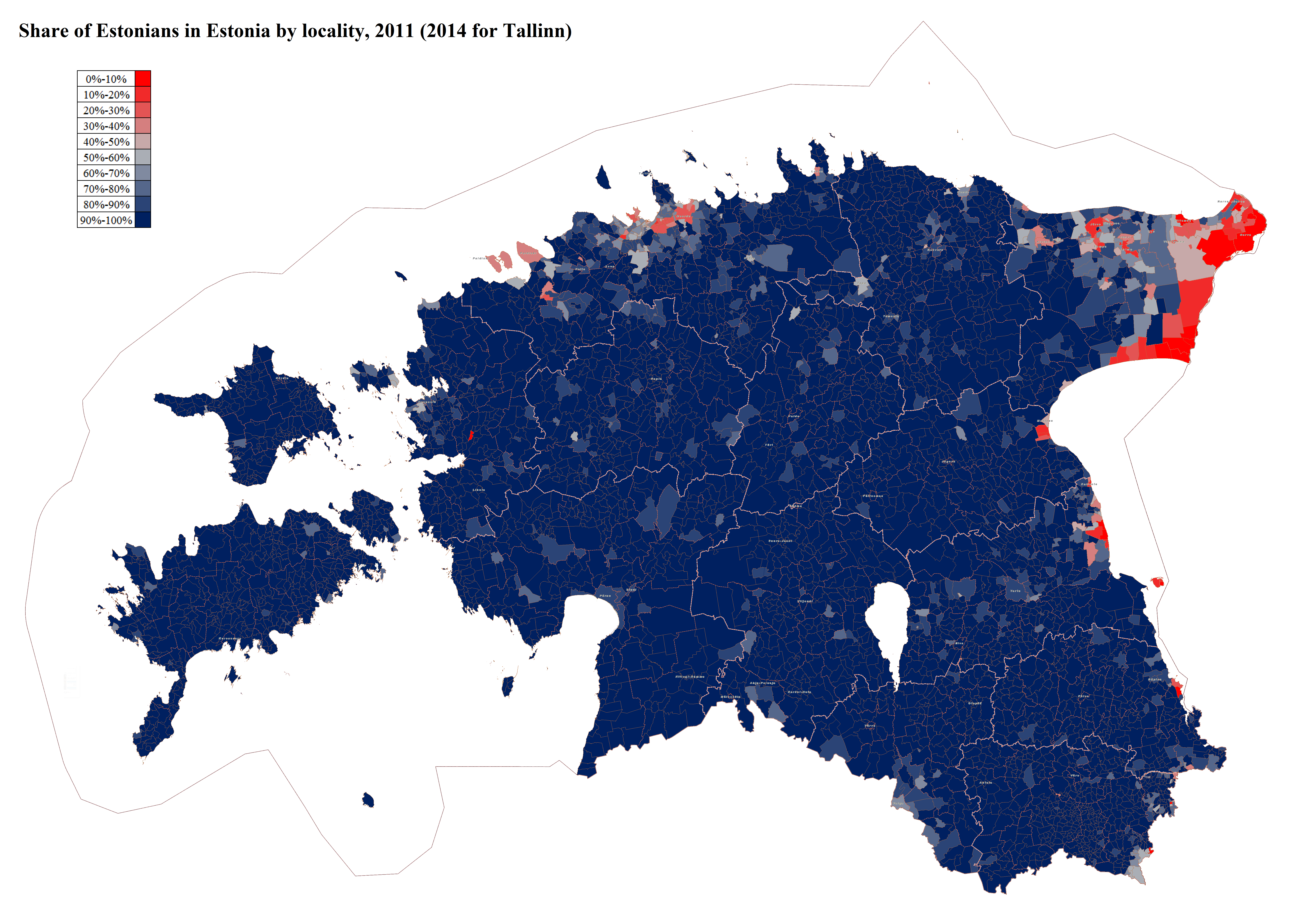 Share of ethnic Estonians by every populated place. Notes: 1) Localities with small populations have the share calculated from municipal data. 2) Uninhabited localities are colored like their neighboring localities.